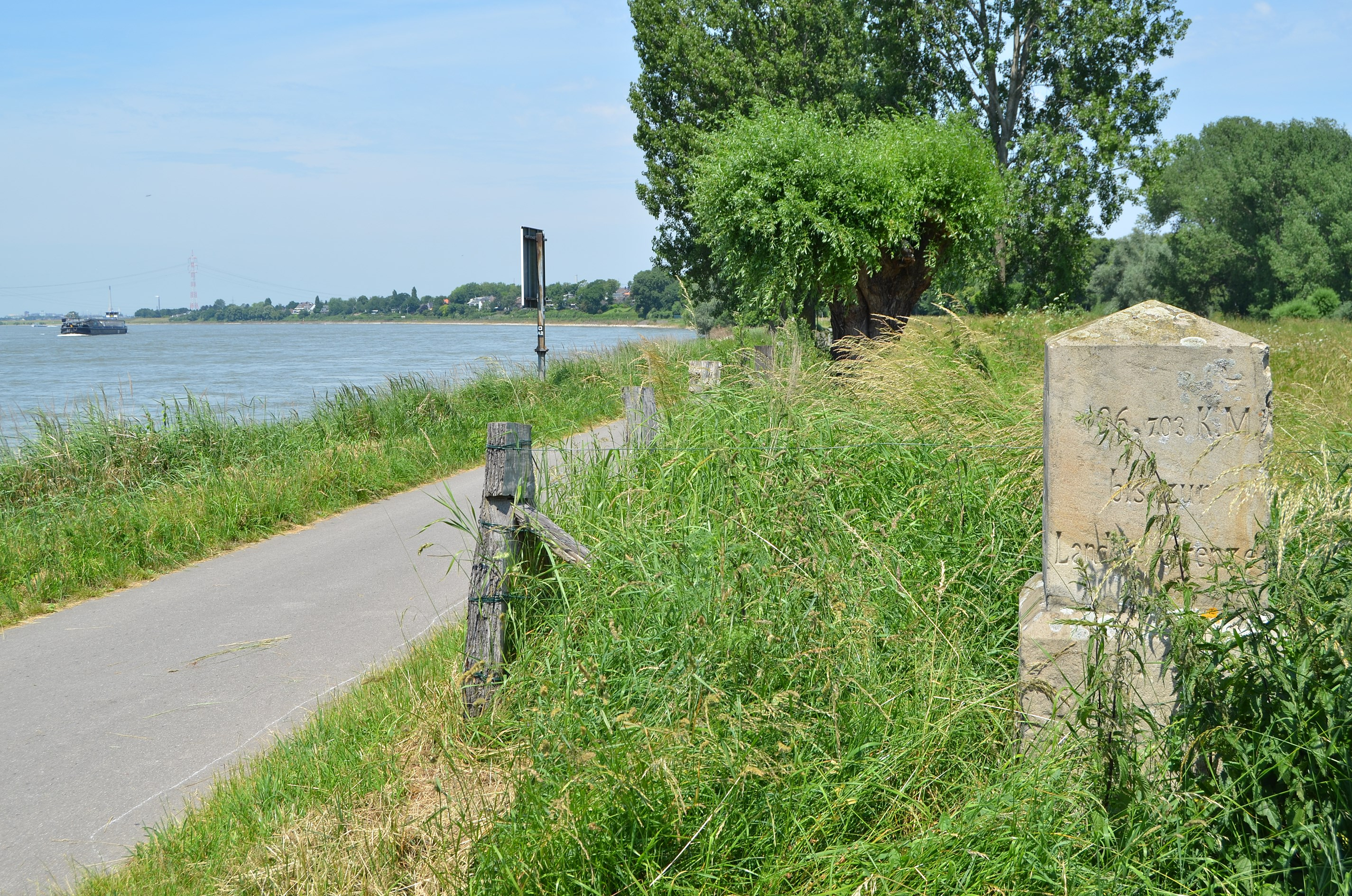 Düsseldorf (North Rhine-Westphalia, Germany) – Kaiserswerth / Wittlaer – "Myriameterstein" no. 59 next to the Rhine This image shows a heritage building in Germany, located in the North Rhine-Westphalian city Düsseldorf (no. 1610). This photograph was taken with a Nikon D7000.